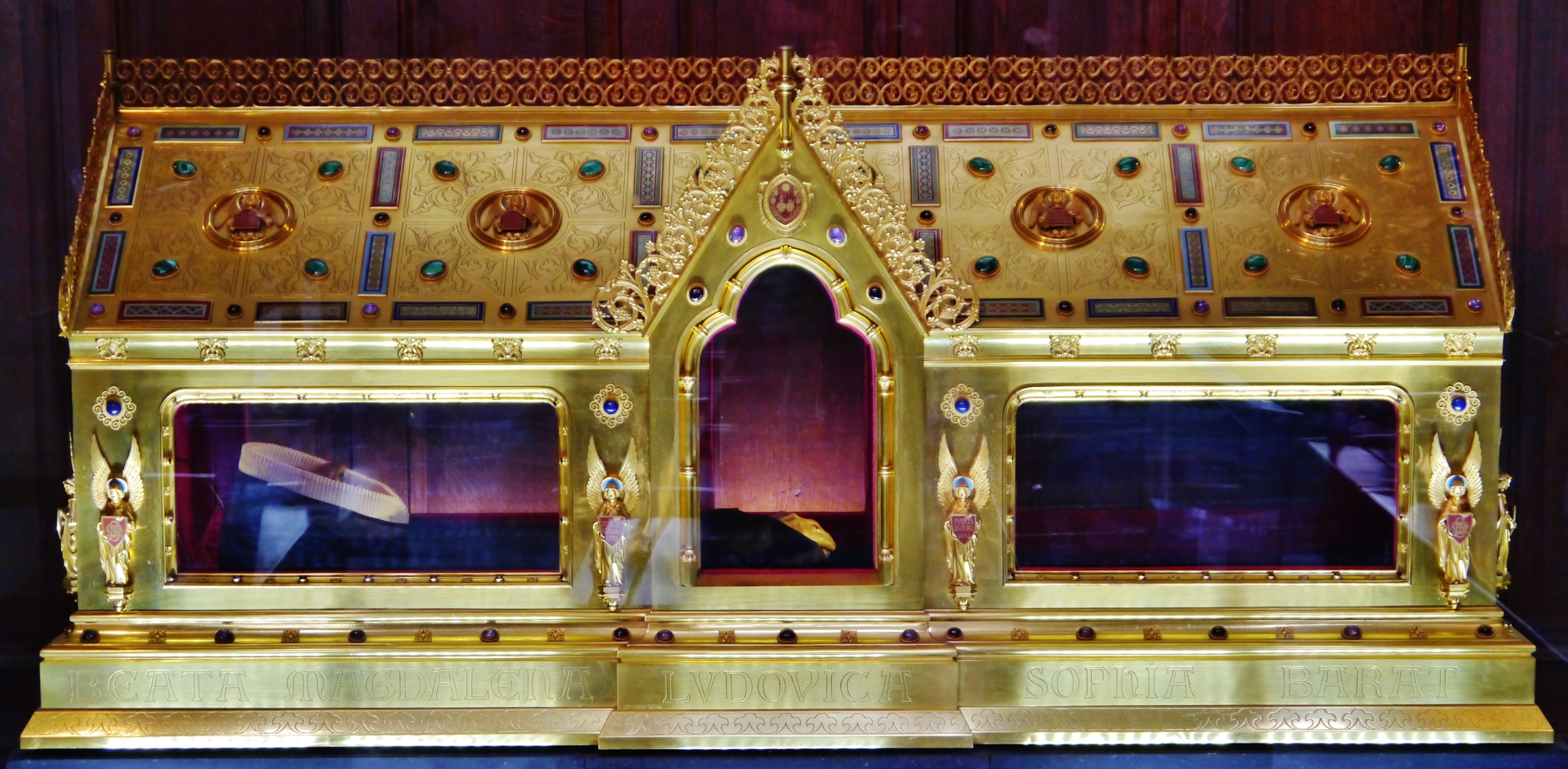 Shrine at the Church St. Francis Xavier of the Foreign Missions, Paris, Region of Île-de-France, France